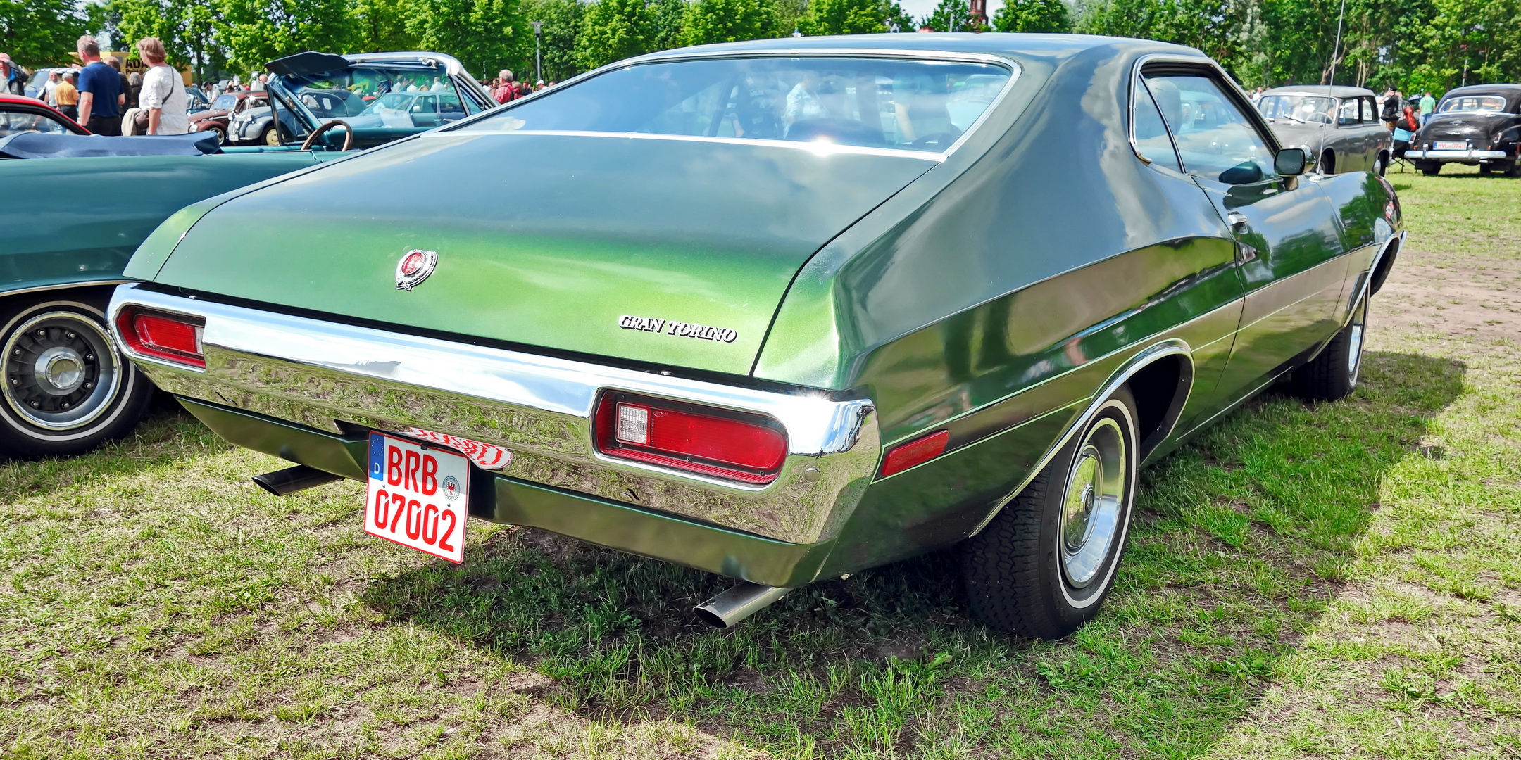 1972 Ford Gran Torino Sport